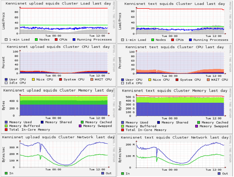 WMF servers were down in Europe for some minutes on 2010-08-02, about 20.30 UTC («the loadbalancer in amsterdam was down for short time» according to DaB. on #wikimedia-tech).